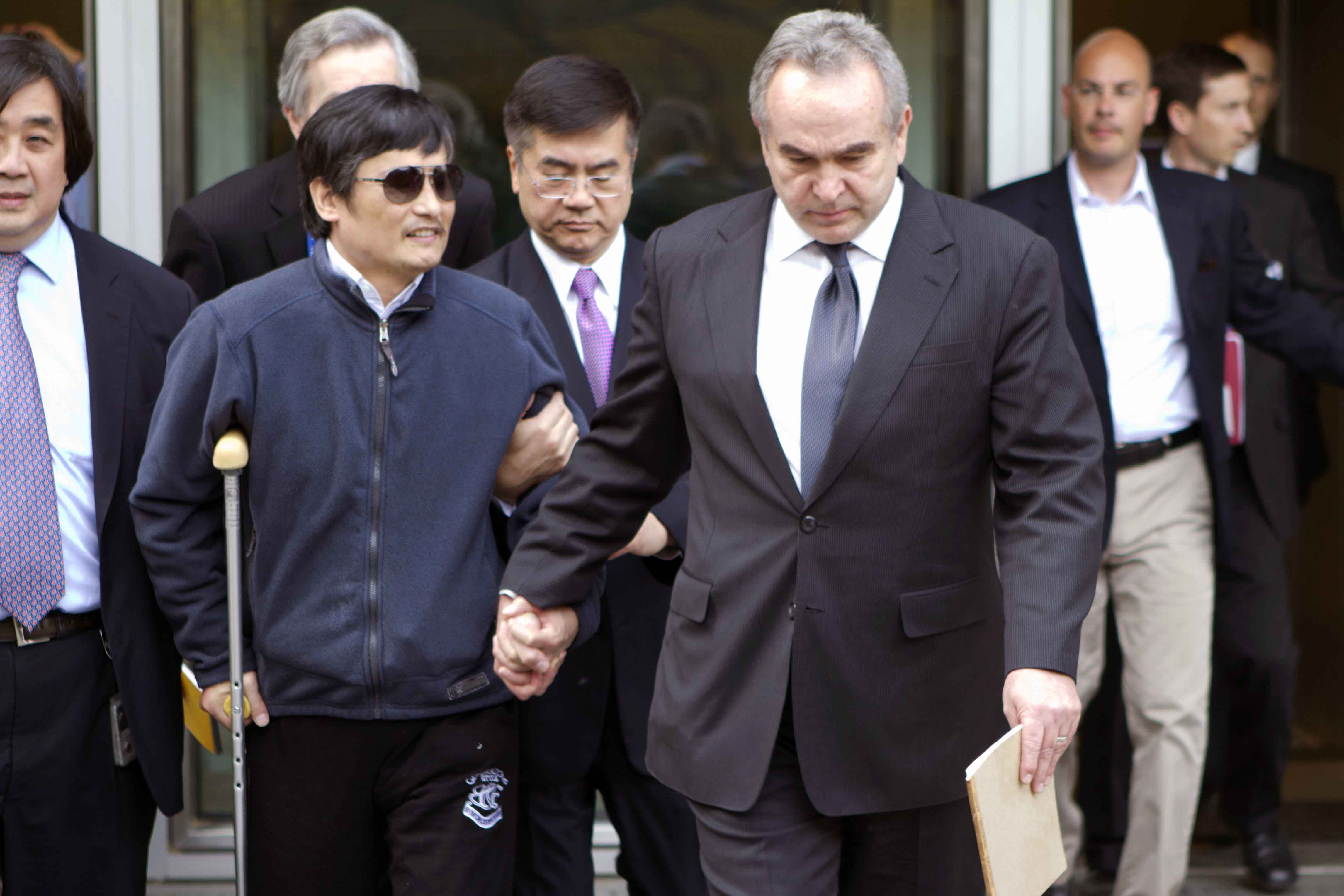 Assistant Secretary of State for East Asian and Pacific Affairs Kurt Campbell with Chen Guangcheng at the U.S. Embassy in Beijing, China, on May 1, 2012. U.S. Ambassador to China Gary Locke is also pictured. [State Department photo/ Public Domain]